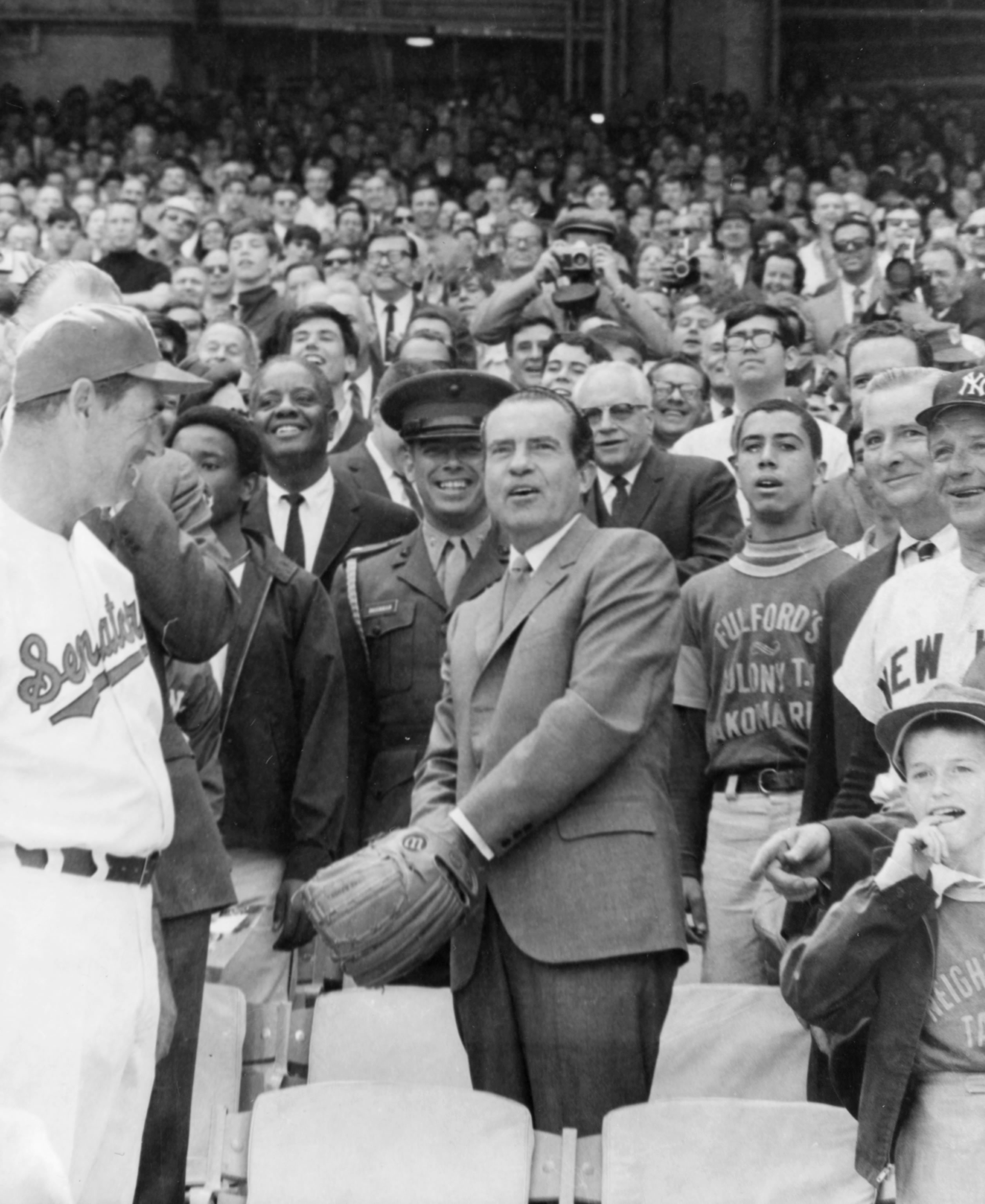 President Richard Nixon tossing out baseball, at Washington Senators' opening game with New York in Washington, D.C.